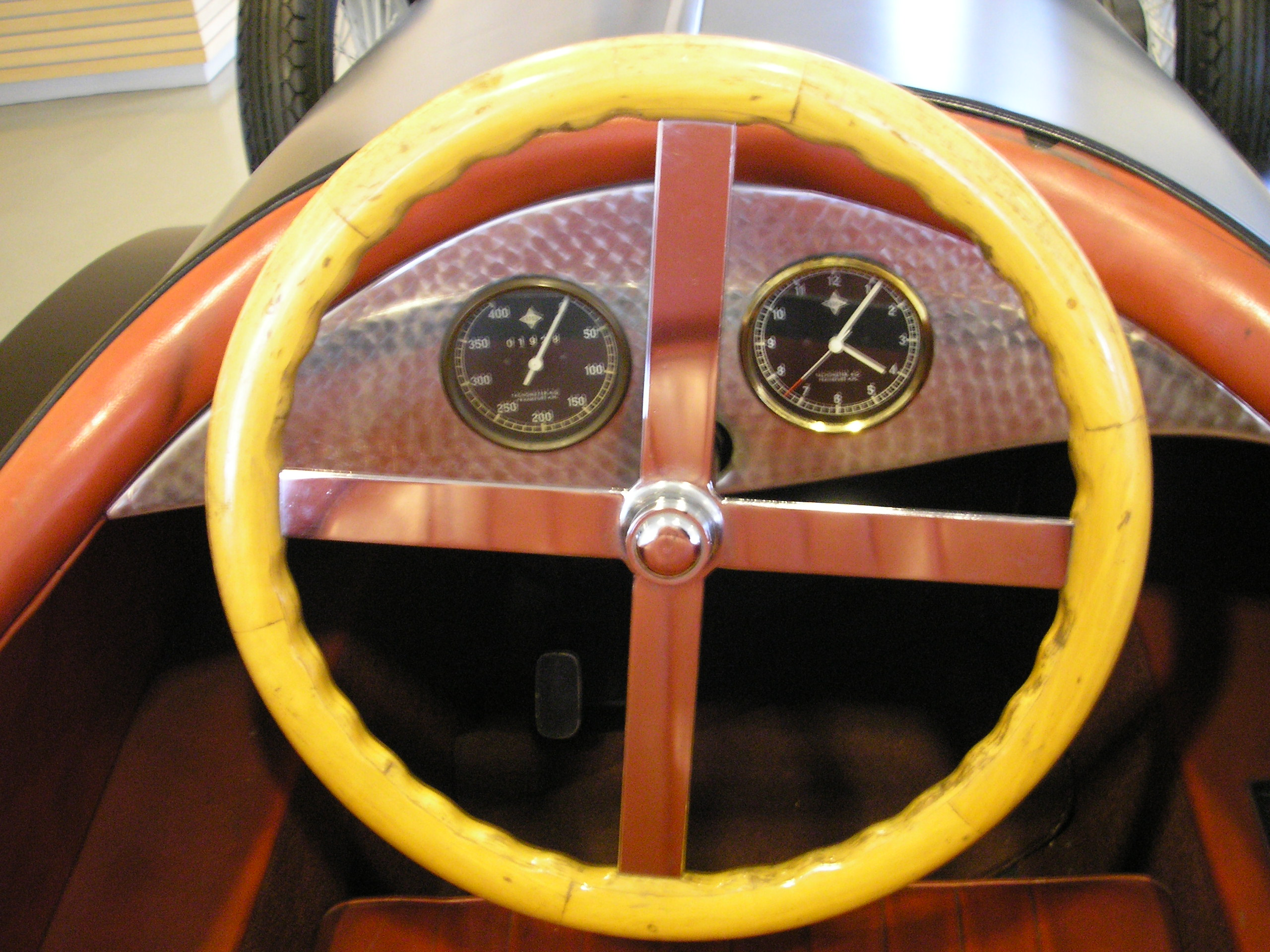 A 1928 Opel RAK2 (“RAK” stands for Rakete, “rocket”) at the “OPEL in Berlin” building, Friedrichstraße. This car, propelled by a rocket engine, reached 238 km/h (148 mph) on the AVUS racetrack in Berlin on May 23, 1928.